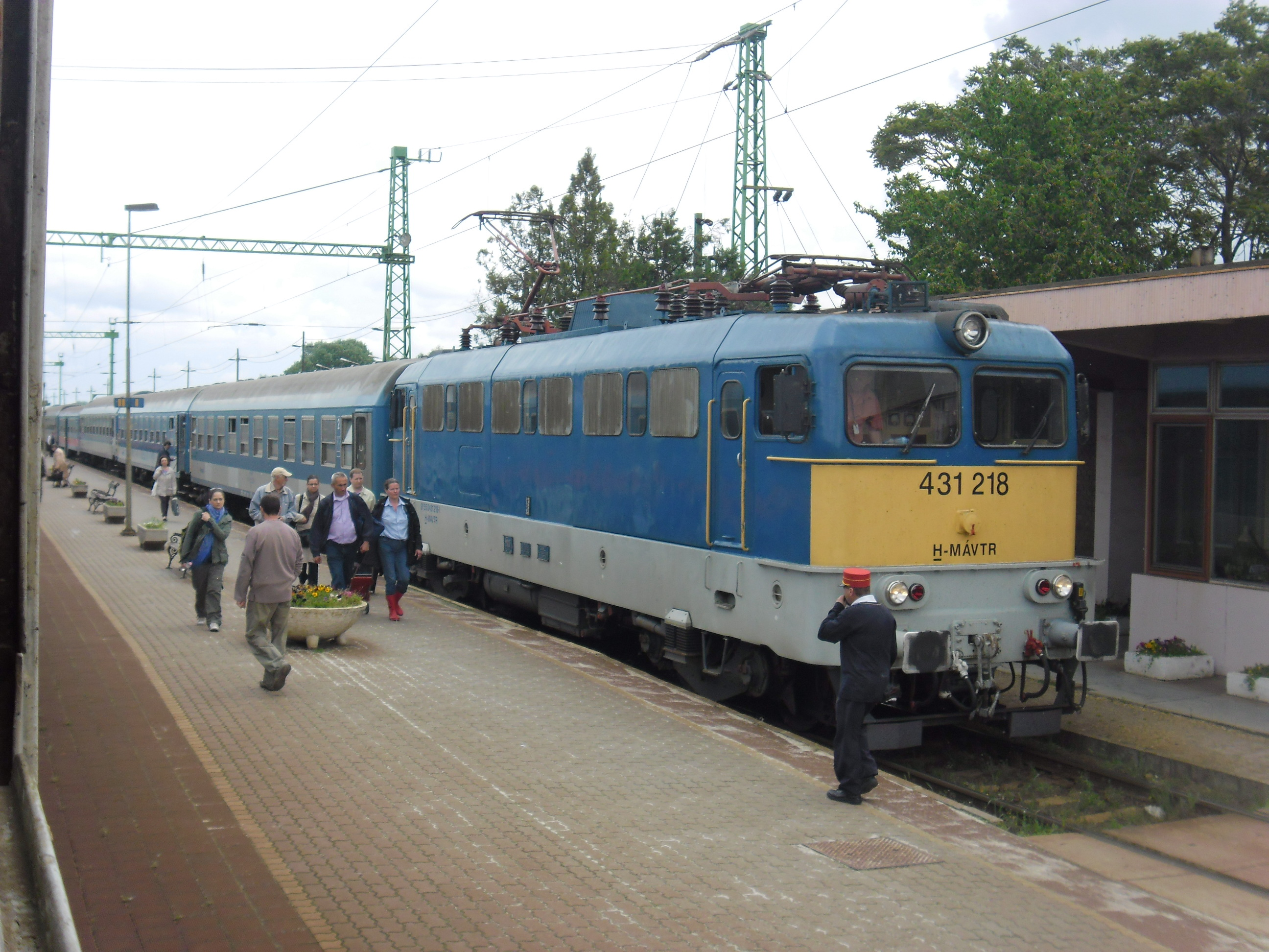 MÁV V43 1218 with the Napfény IC in Nagykőrös